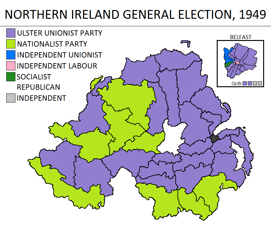 Map showing results of the 1949 Northern Ireland general election.